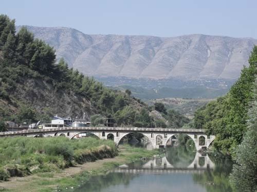 Berat bridge, Albania